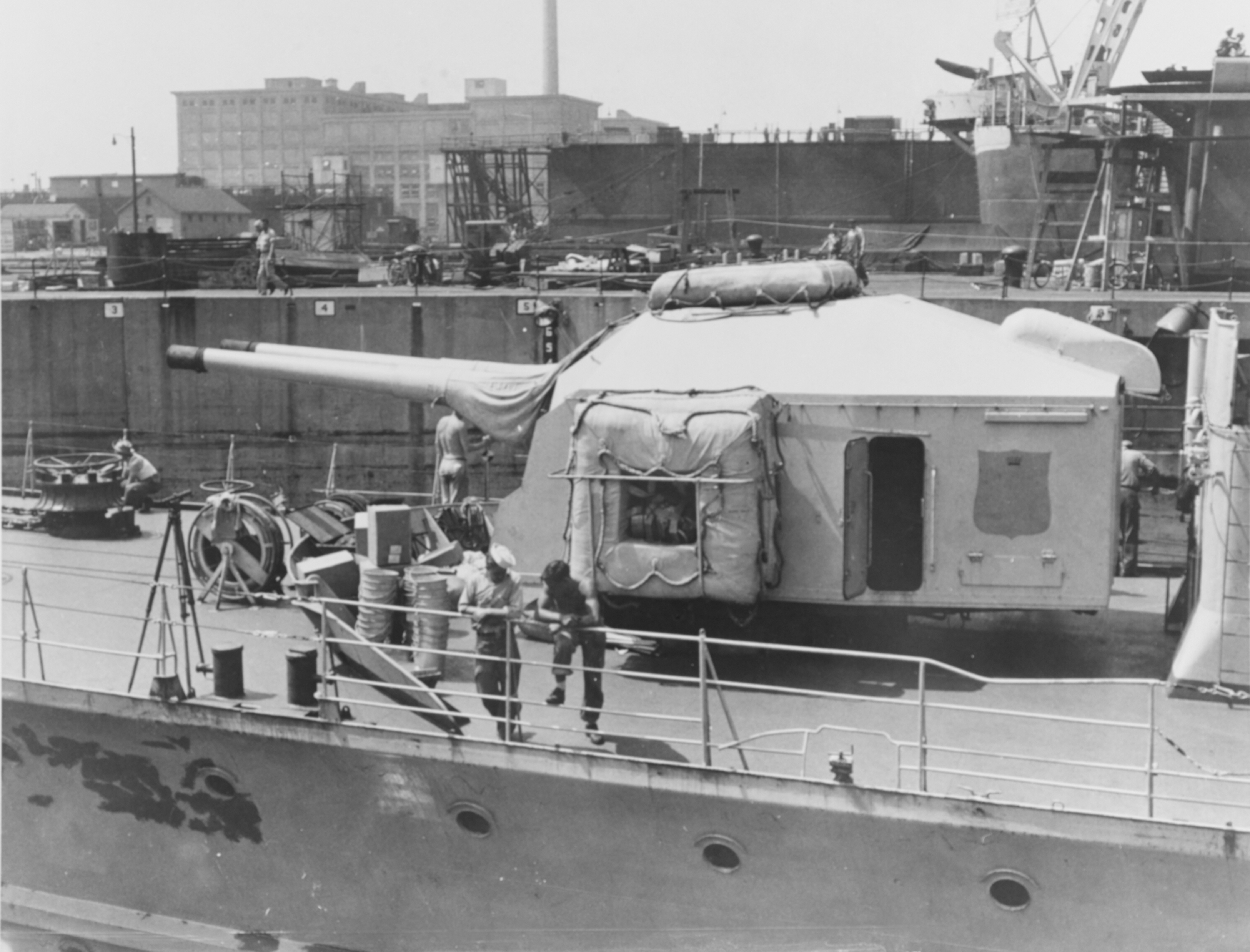 The 15 cm TbtsK C/36 twin gun turret aboard the former German destroyer Z 39 in a drydock at the Boston Navy Yard, Massachusetts (USA), 11 August 1945. The U.S. Navy designated the destoyer DD-939. Note thelife rafts.